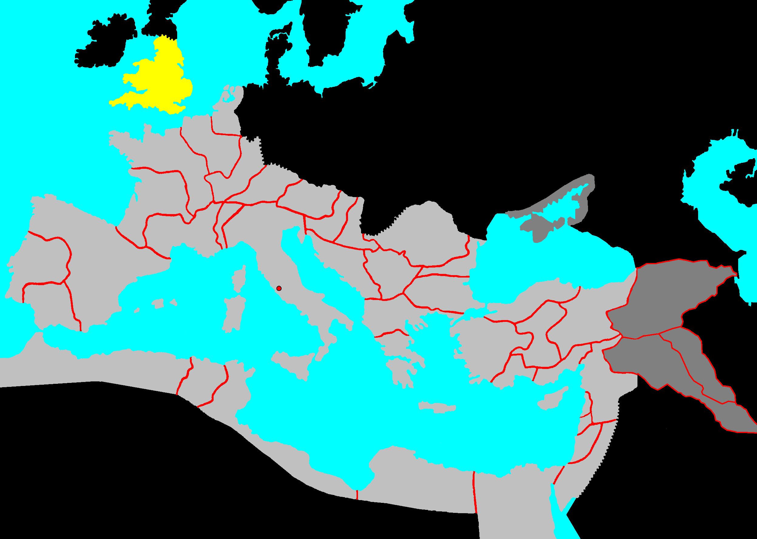 Description: provinces of the Roman Empire (Imperium Romanum) Source: own work Date: December 2005 Author: --Immanuel Giel 12:46, 13 December 2005 (UTC) Other versions: none